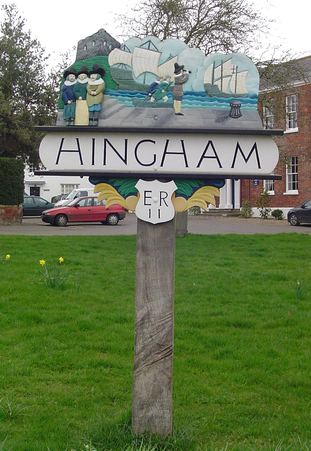 Signpost in Hingham